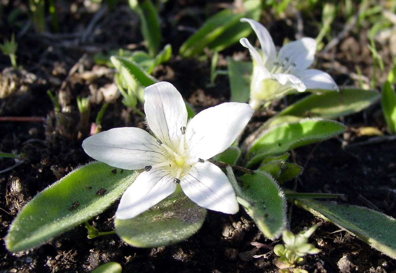 Hesperochiron californicus. City of Rocks National Preserve, Idaho, USA.